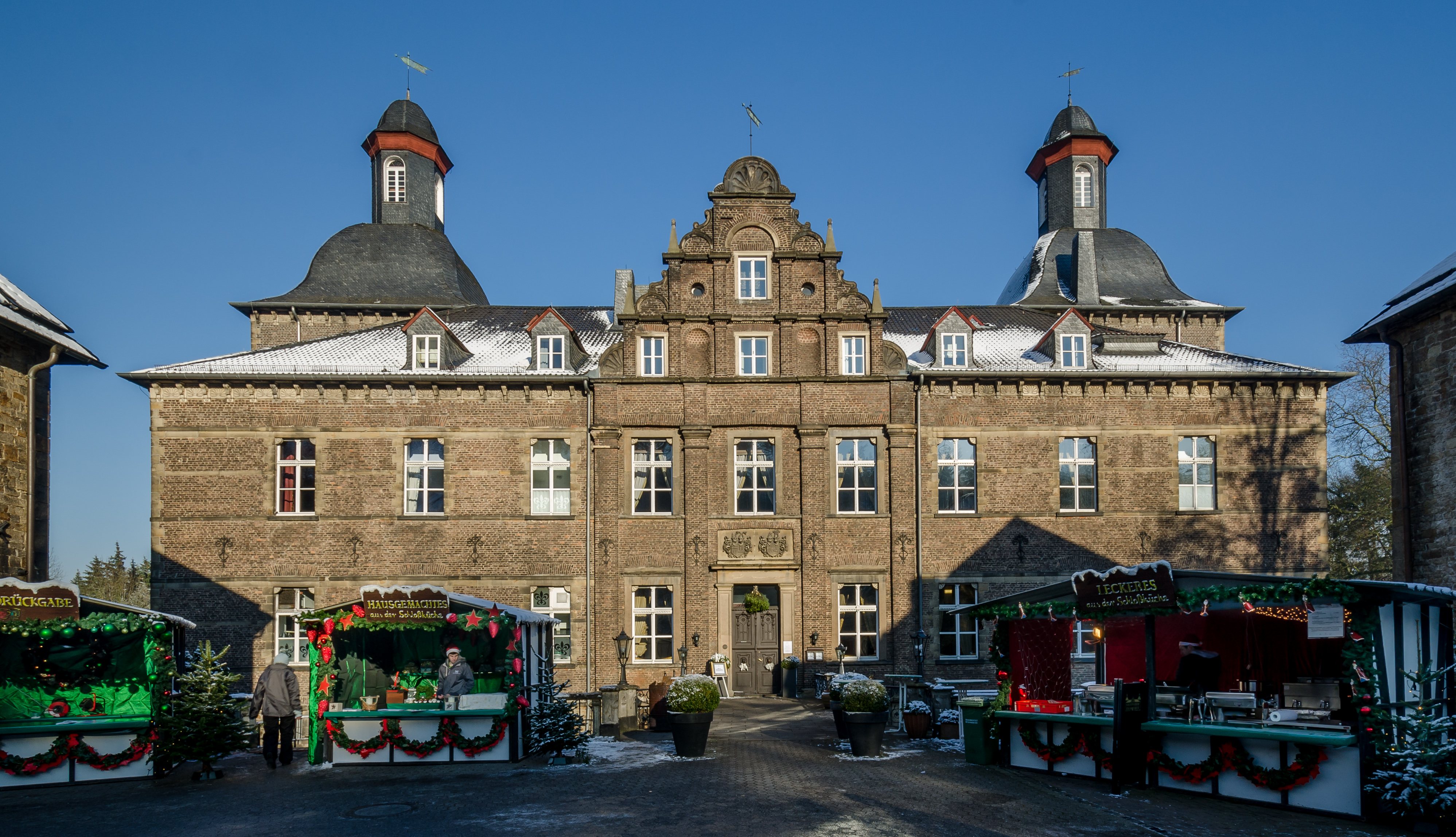 Hugenpoet castle manor house